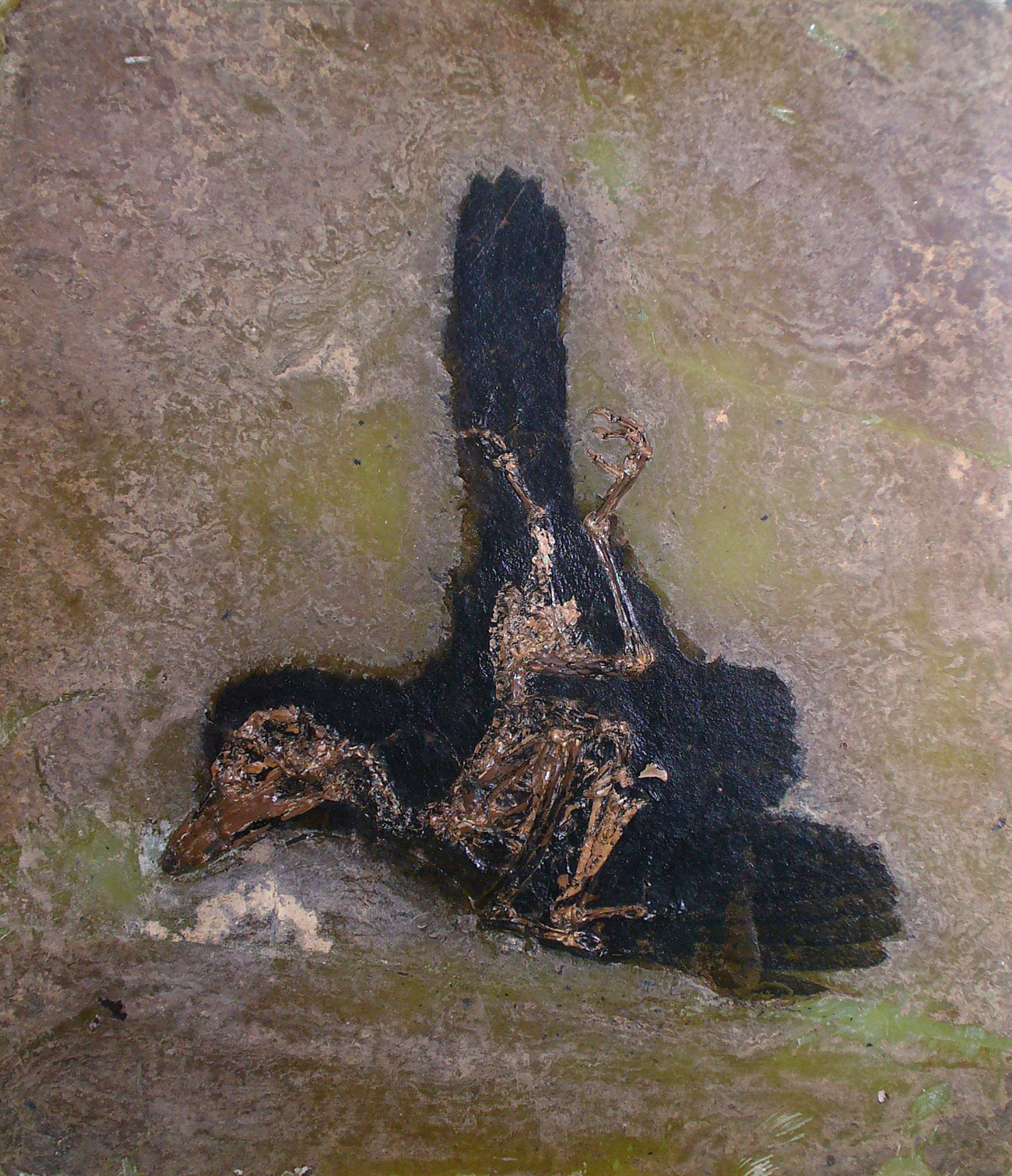 Coraciiformes indet, Roller-like bird; Eocene, Messel, Germany; Staatliches Museum für Naturkunde Karlsruhe, Germany.